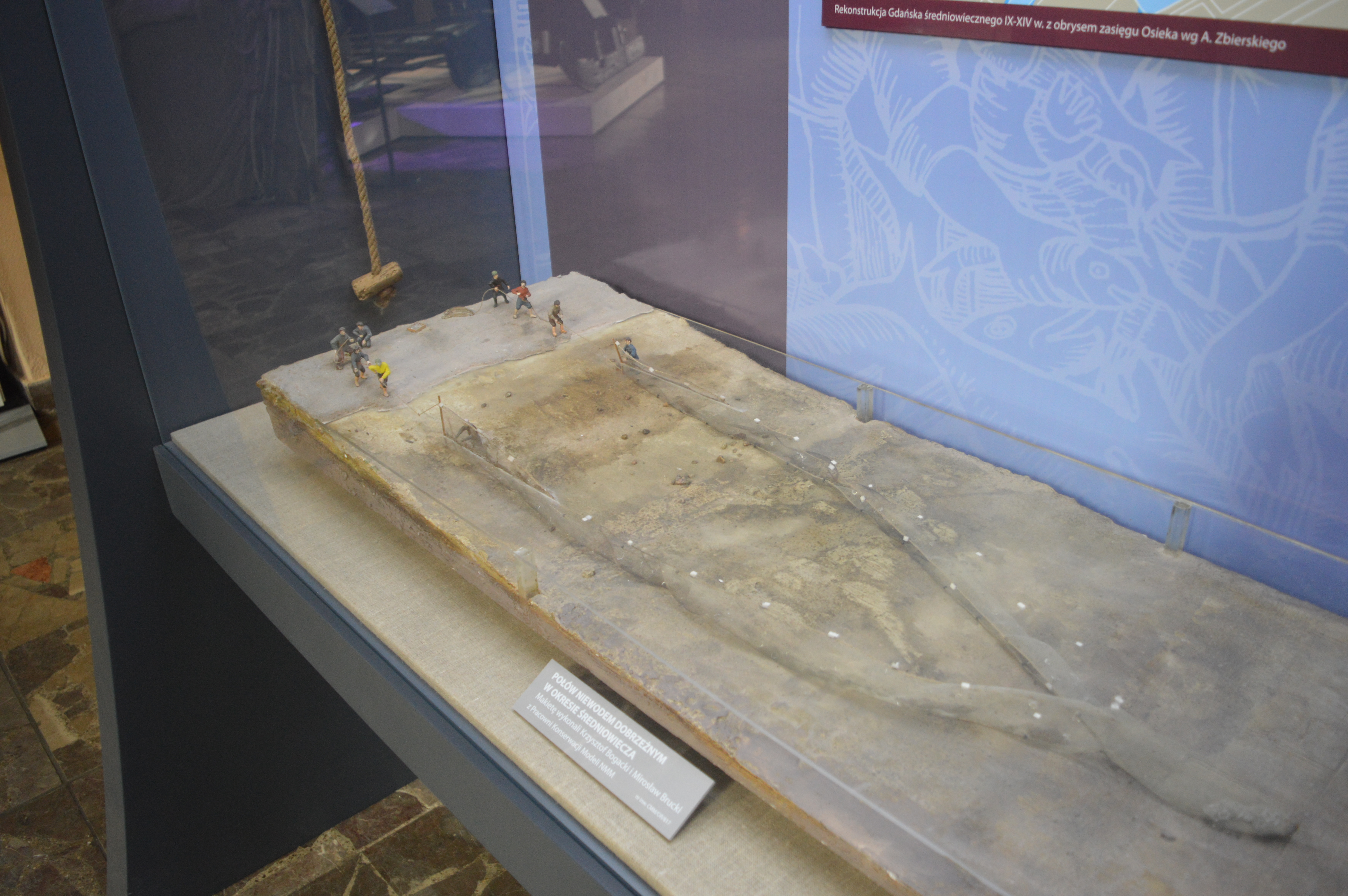 Model showing fishing with sein (or dragnet) in Medieval times. Exhibit in Museum of Fishery in Hel, Poland.